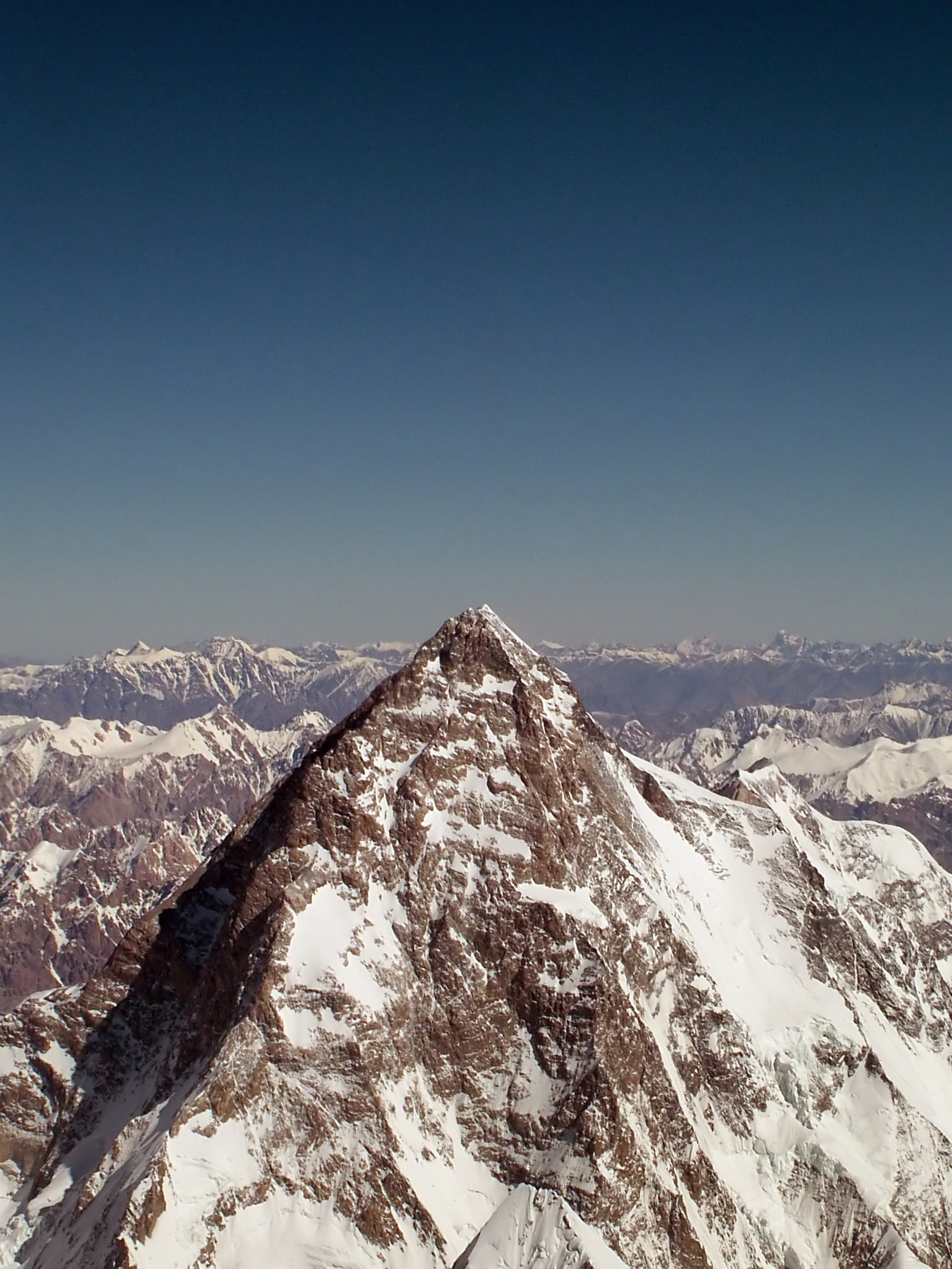 K2 from the air. The West Face is nearest the camera.